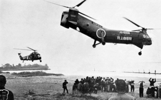 A U.S. Navy Sikorsky HSS-1 Seabat of Helicopter Anti-Submarine Squadron 6 (HS-6) "Indians" and a Japanese Self-Defense Forces Piasecki Model 44A (s/n JG-0002) evacuate residents of the Nagoya prefecture, Japan, following Typhoon Vera. HS-6 was assigned to the aircraft carrier USS Kearsarge (CVS-33) for a deployment to the Western Pacific from 15 September 1959 to 15 March 1960. JG-0002 is today on display at the Tokorozawa Aviation Museum, Tokorozawa (Japan).